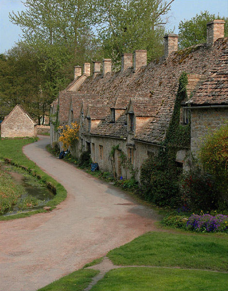 Arlington Row, Bibury, Gloucestershire